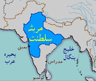 Map of Maratha Confedration in Punjabi.